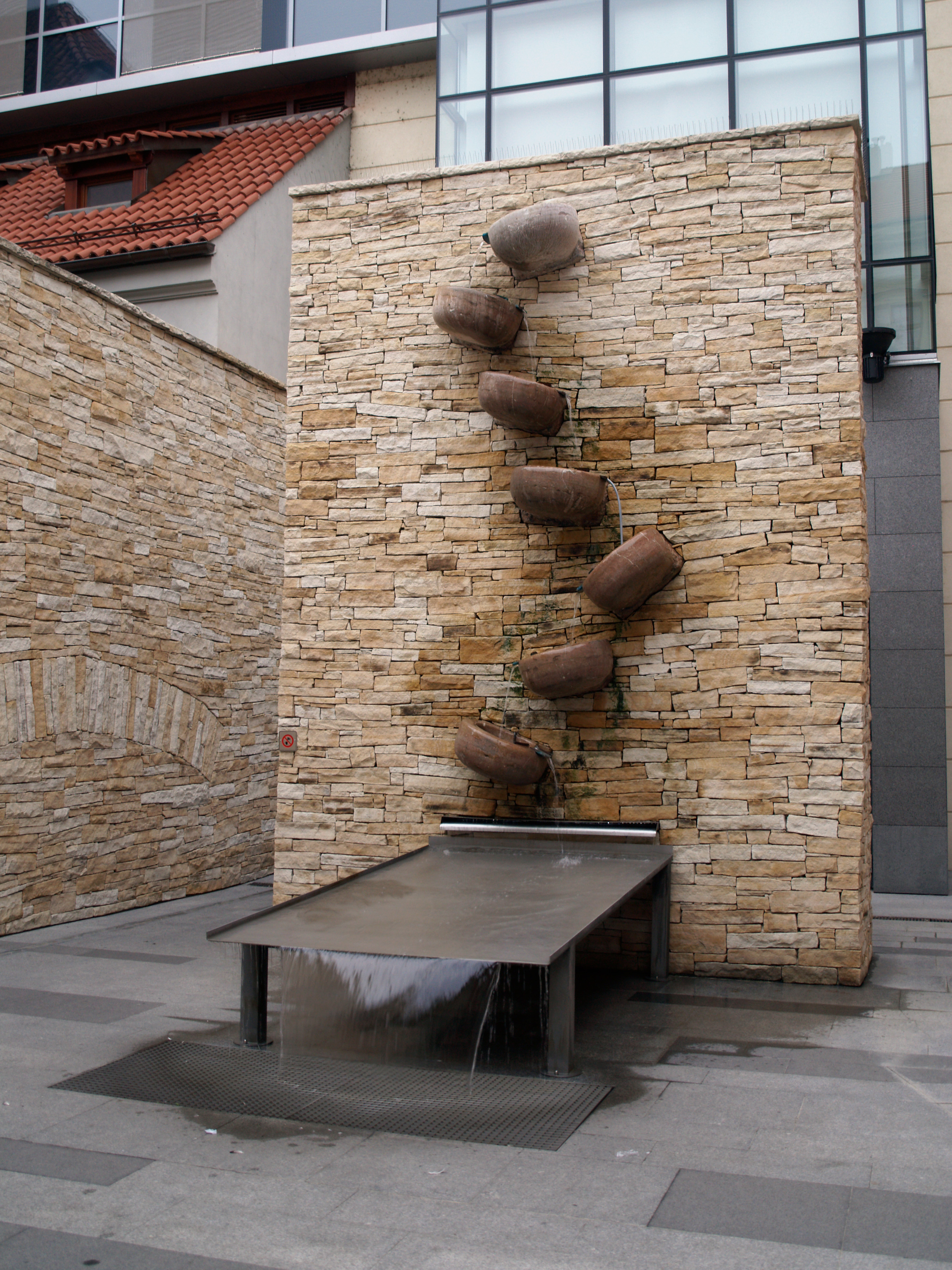 Fountain in Prague’s shopping mall Palladium